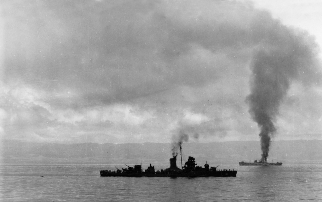 The U.S. Navy destroyer USS Jarvis (DD-393) down at the bow after she was torpedoed by Japanese aircraft off Guadalcanal on 8 August 1942. USS George F. Elliott (AP-13), another victim of that attack, is burning in the background.